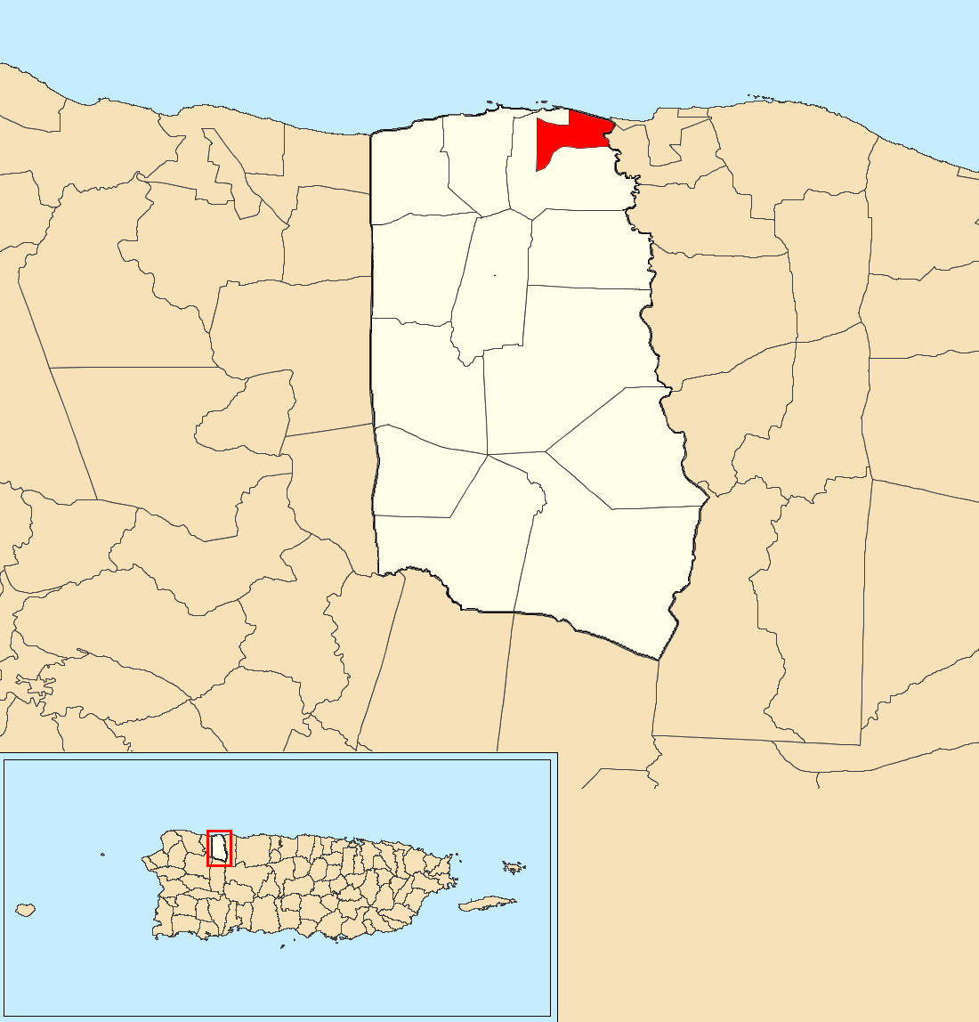 Camuy barrio-pueblo, Camuy, Puerto Rico locator map